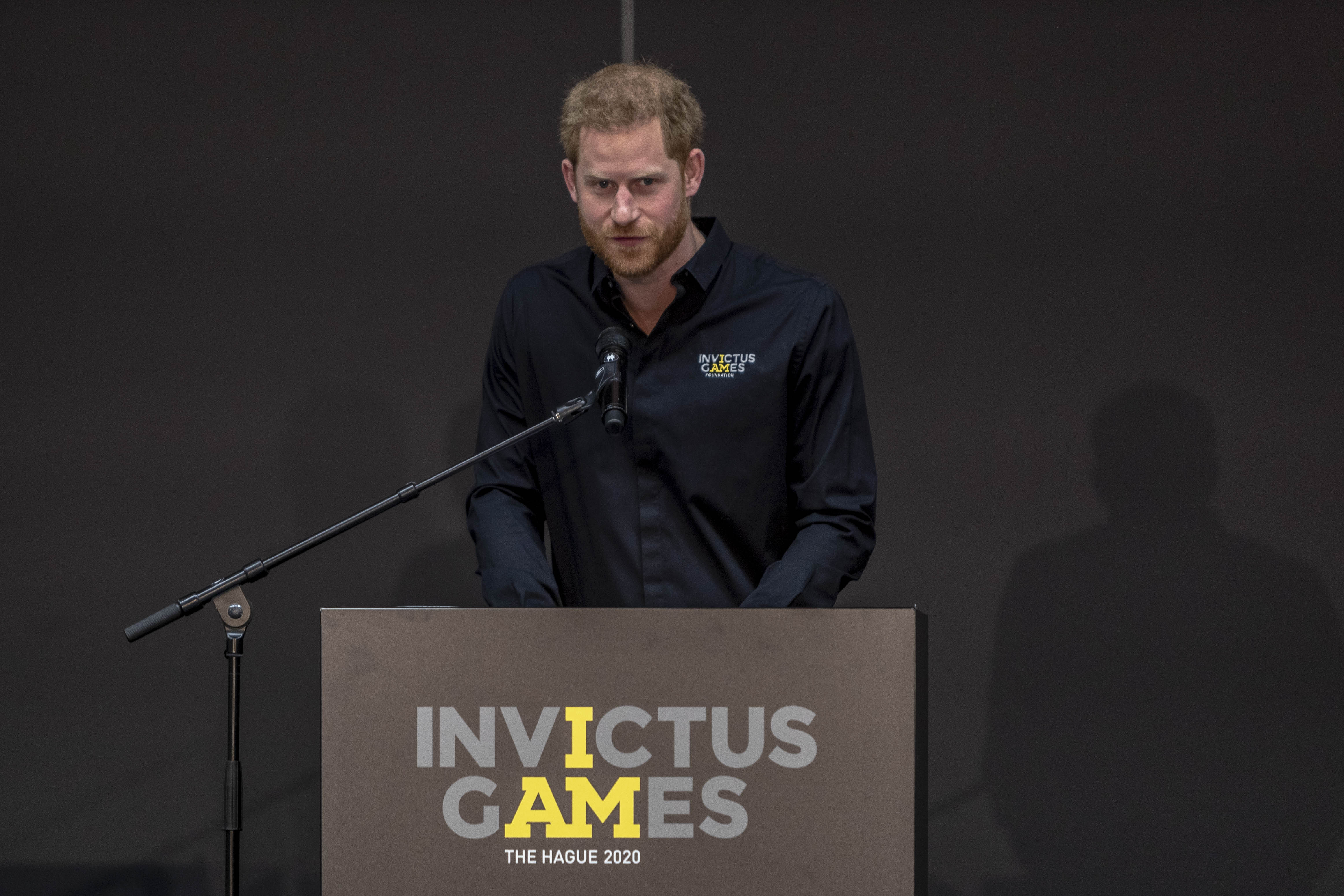 Zuiderpark, Den Haag. 09 mei 2019Prins Harry stapte de Invictus Games 2020 officieel af. Vanaf nu, over een jaar mei 2020 zijn de Invictus Games 2020 in het Zuiderpark te Den Haag en Eindhoven.Foto: Prins Harry